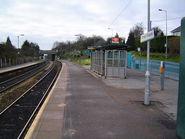 Dinas Powys railway station, Vale of Glamorgan, Wales